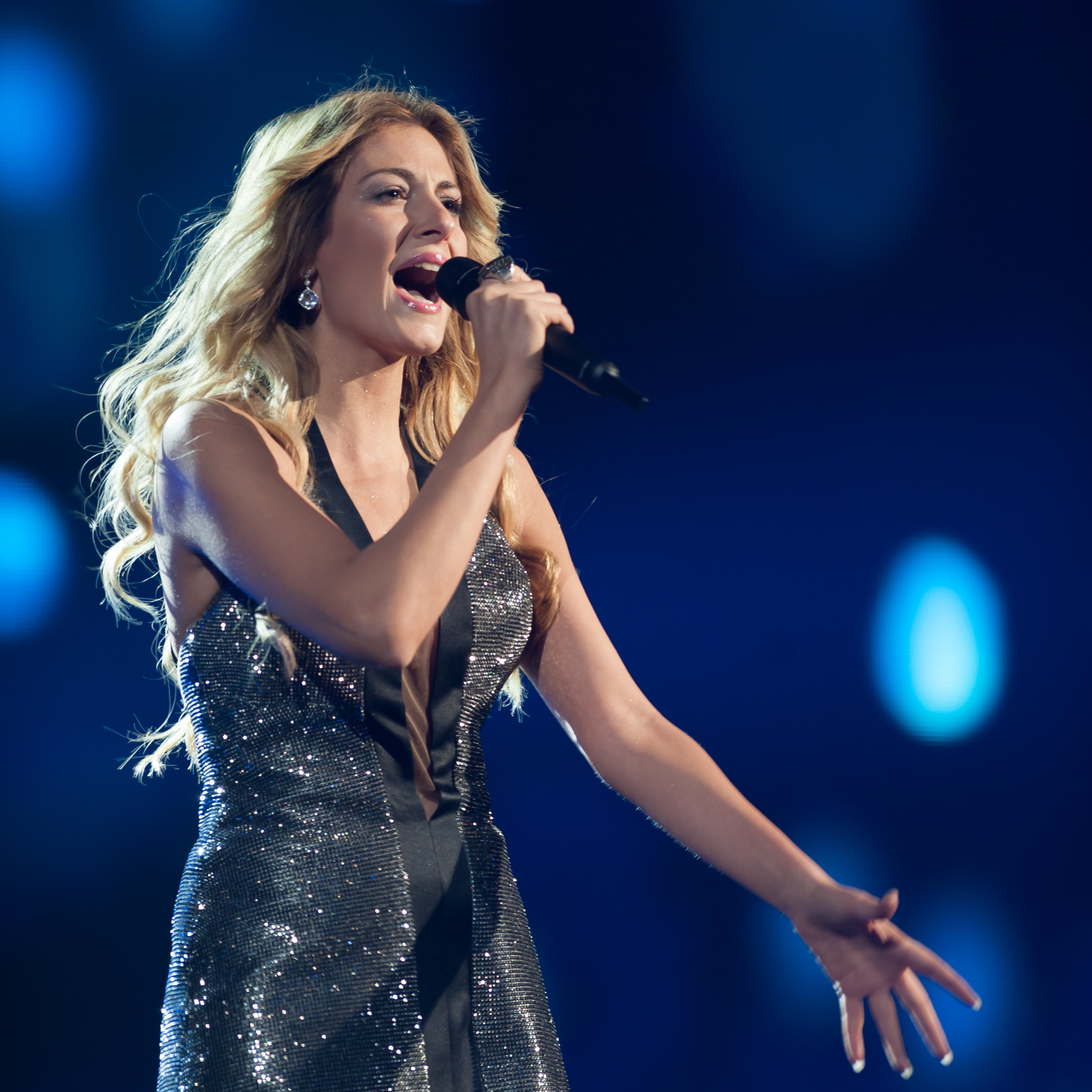 Eurovision Song Contest Vienna 2015: Maria Elena Kyriakou